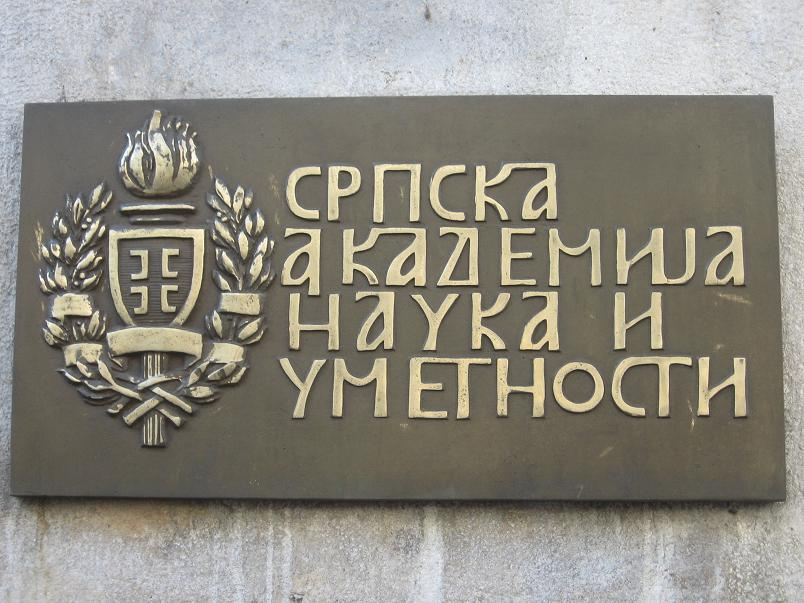 Serbian Academy of Sciences and Arts plaque